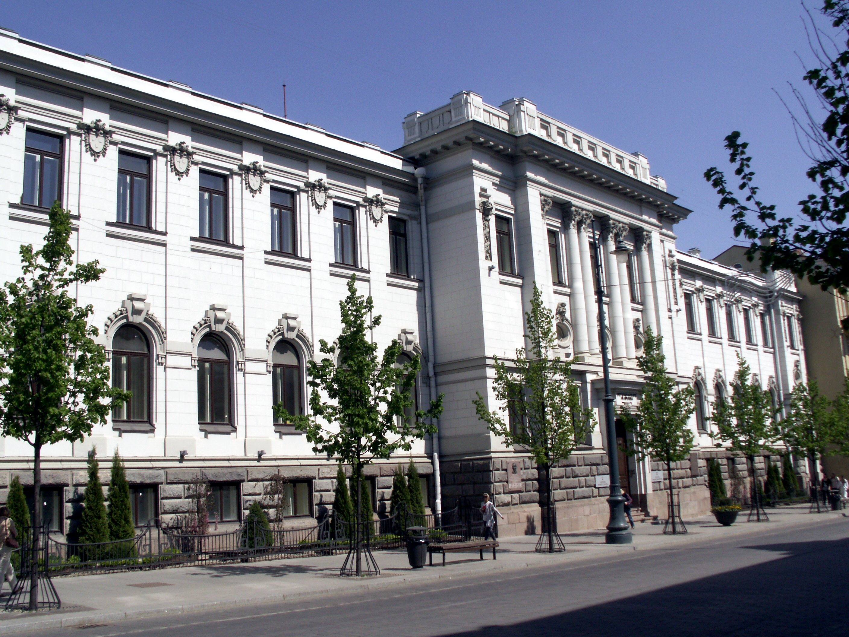 Gedimino pr. 3, Lithuanian Academy of Sciences, Vilnius, Lithuania, arc. Mikhail Prozorov, 1903-1906